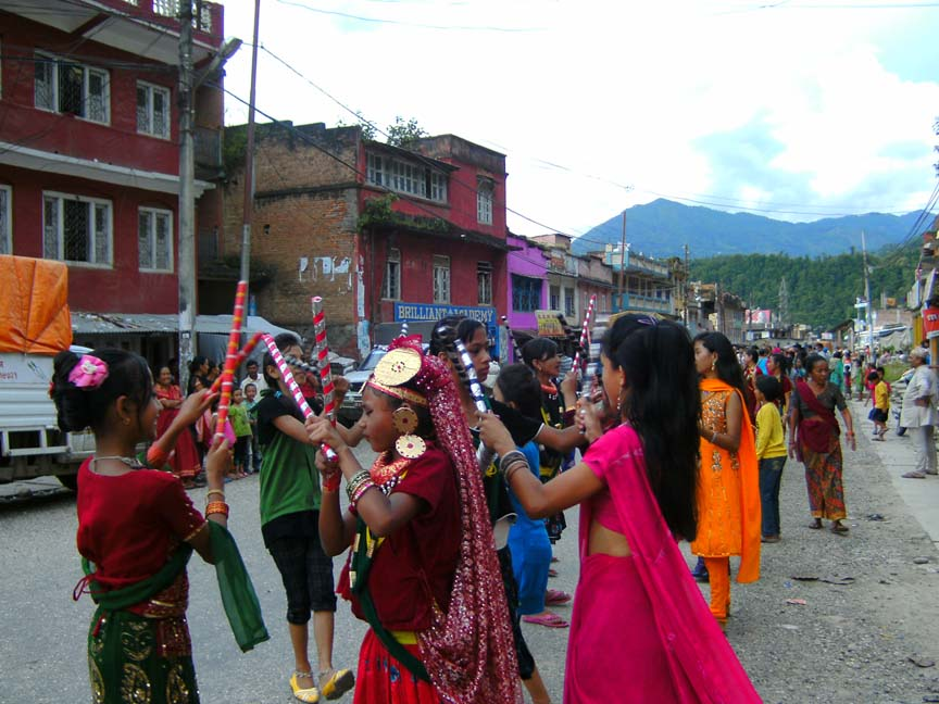 A festival celebrated by Newars in Nuwakot District of Nepal.